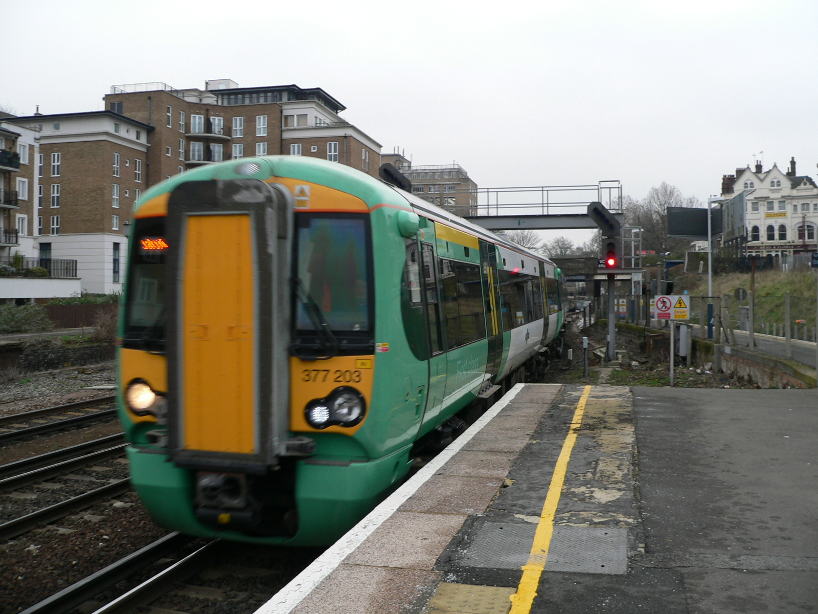 Southern Class 377/2 EMU 377203 arrives into platform 2 at Kensington Olympia station with a northbound service to Watford Junction.